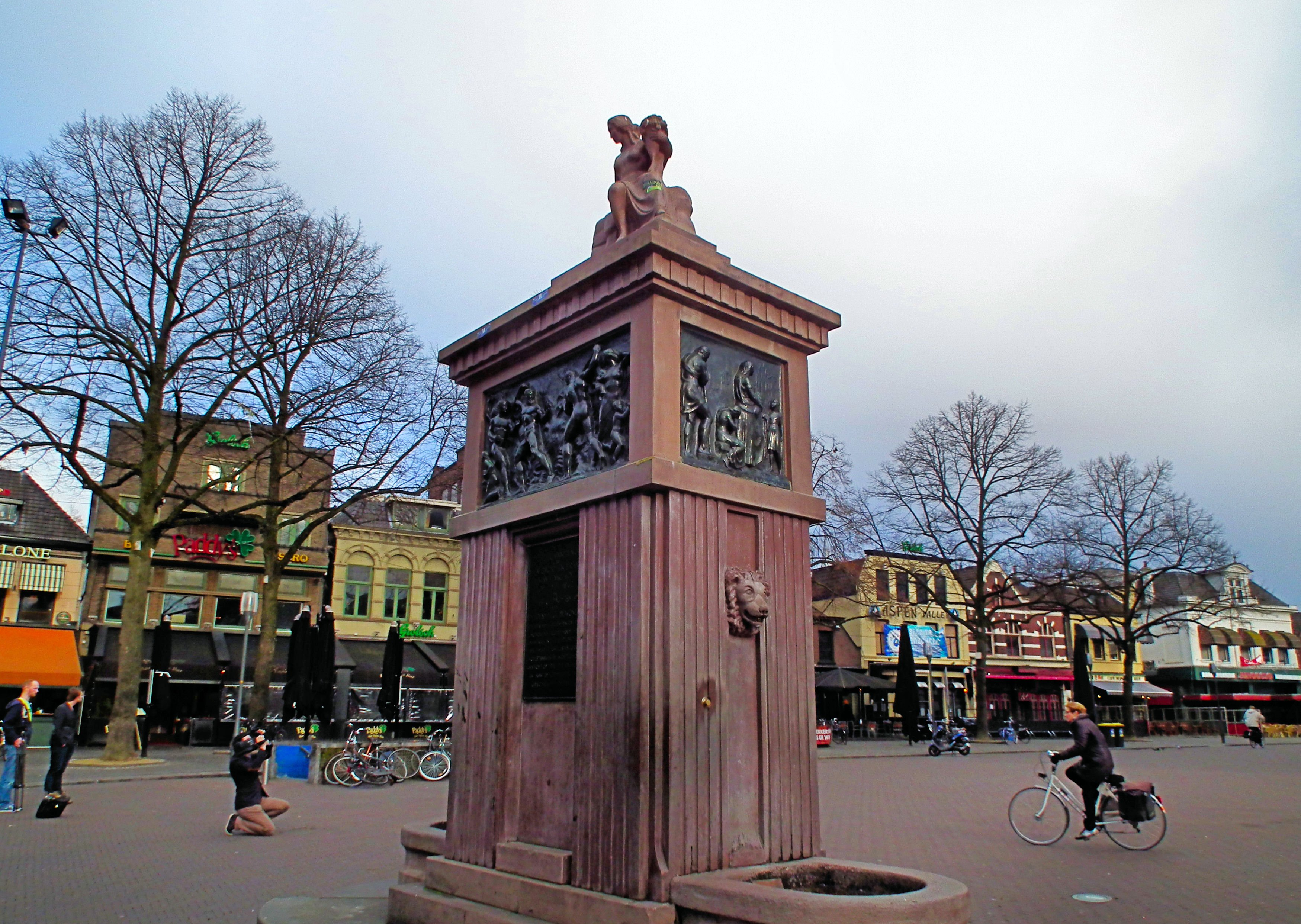 The Netherlands - Enschede - Fire monument